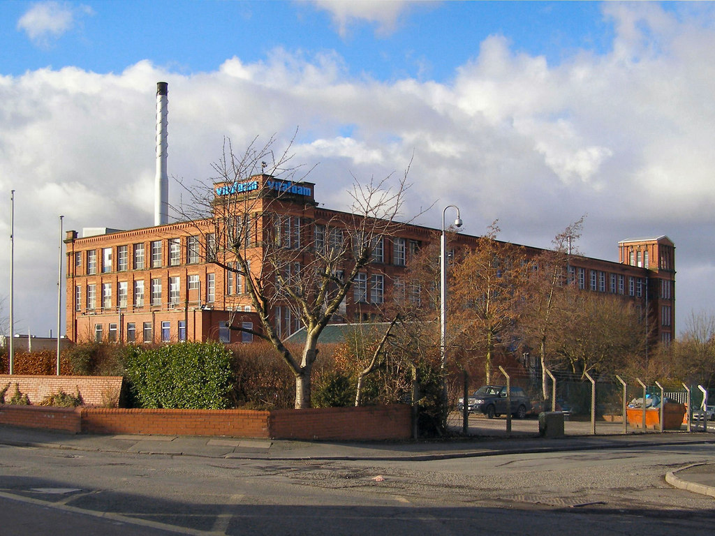 British Vita Factory Former textile mill converted to a factory. Oldham Road, Middleton.